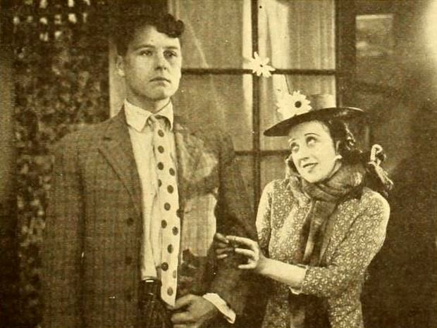 Still from the American film Sis Hopkins (1919) with John Bowers and Mabel Normand, on page 751 of the February 8, 1919 Moving Picture World.